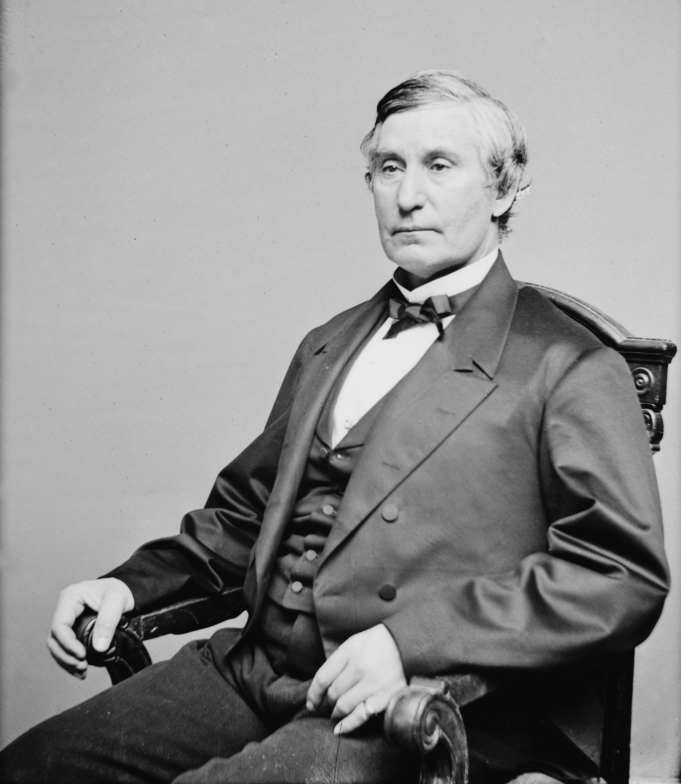 Jacob M. Howard. Library of Congress description: "Howard. Hon. Jacob Merritt of Mich. Drew up platform of the first convention ever held by the Republican Party and christened that party in 1854".